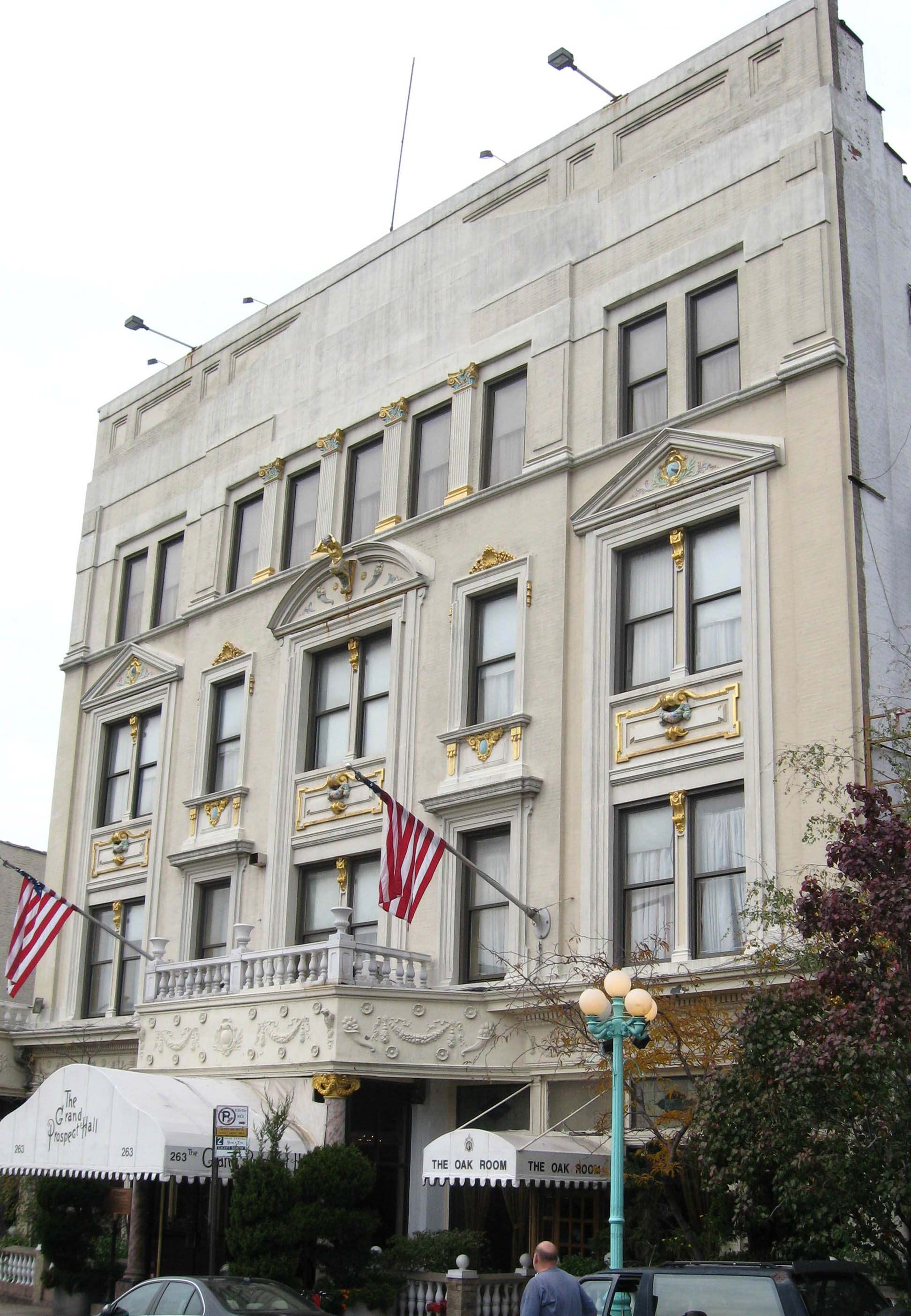 Looking north across Prospect Avenue at Grand Prospect Hall on a cloudy afternoon